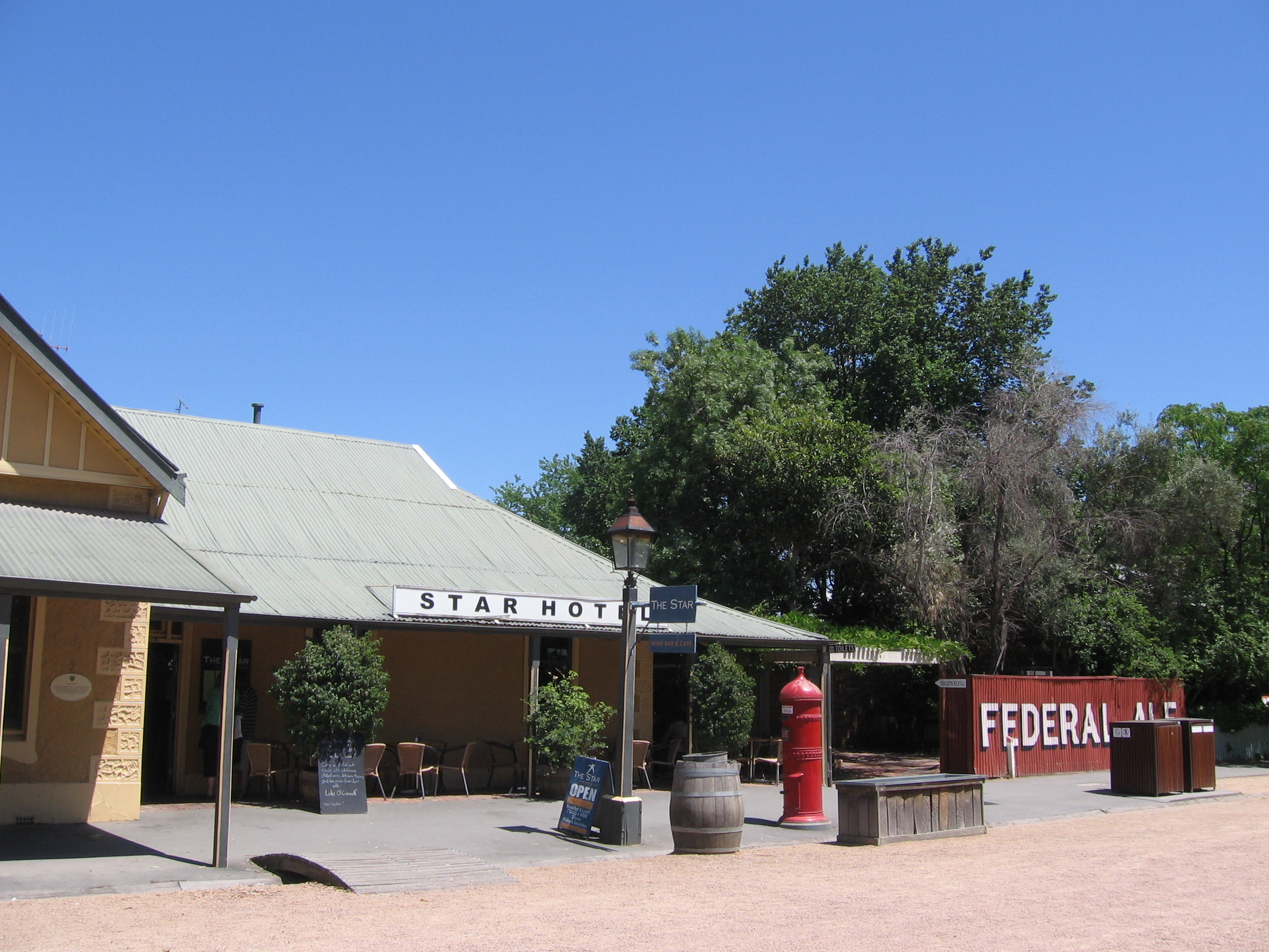 Star Hotel at Echuca, Victoria